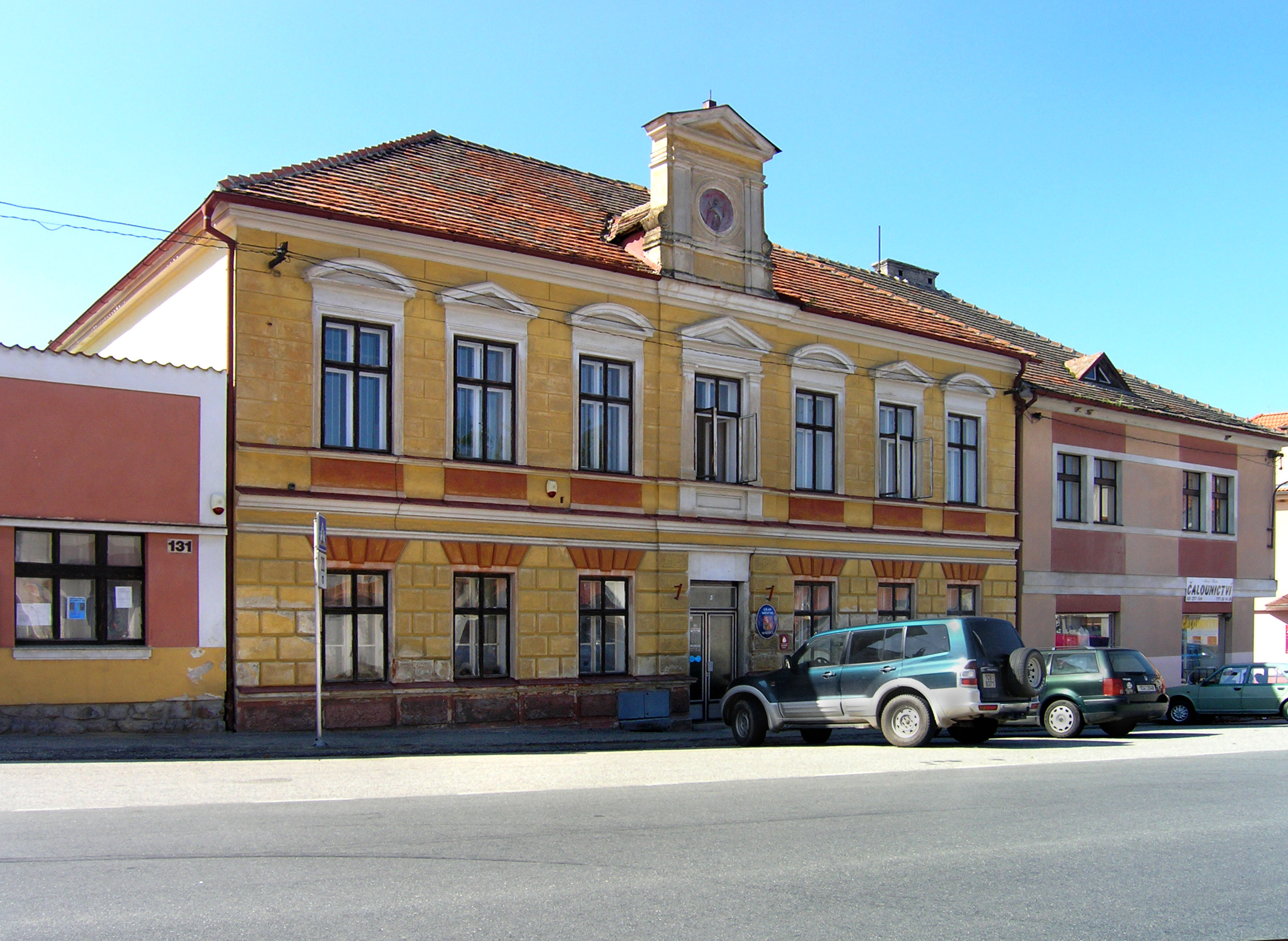 Town hall in Malšice, Czech Republic